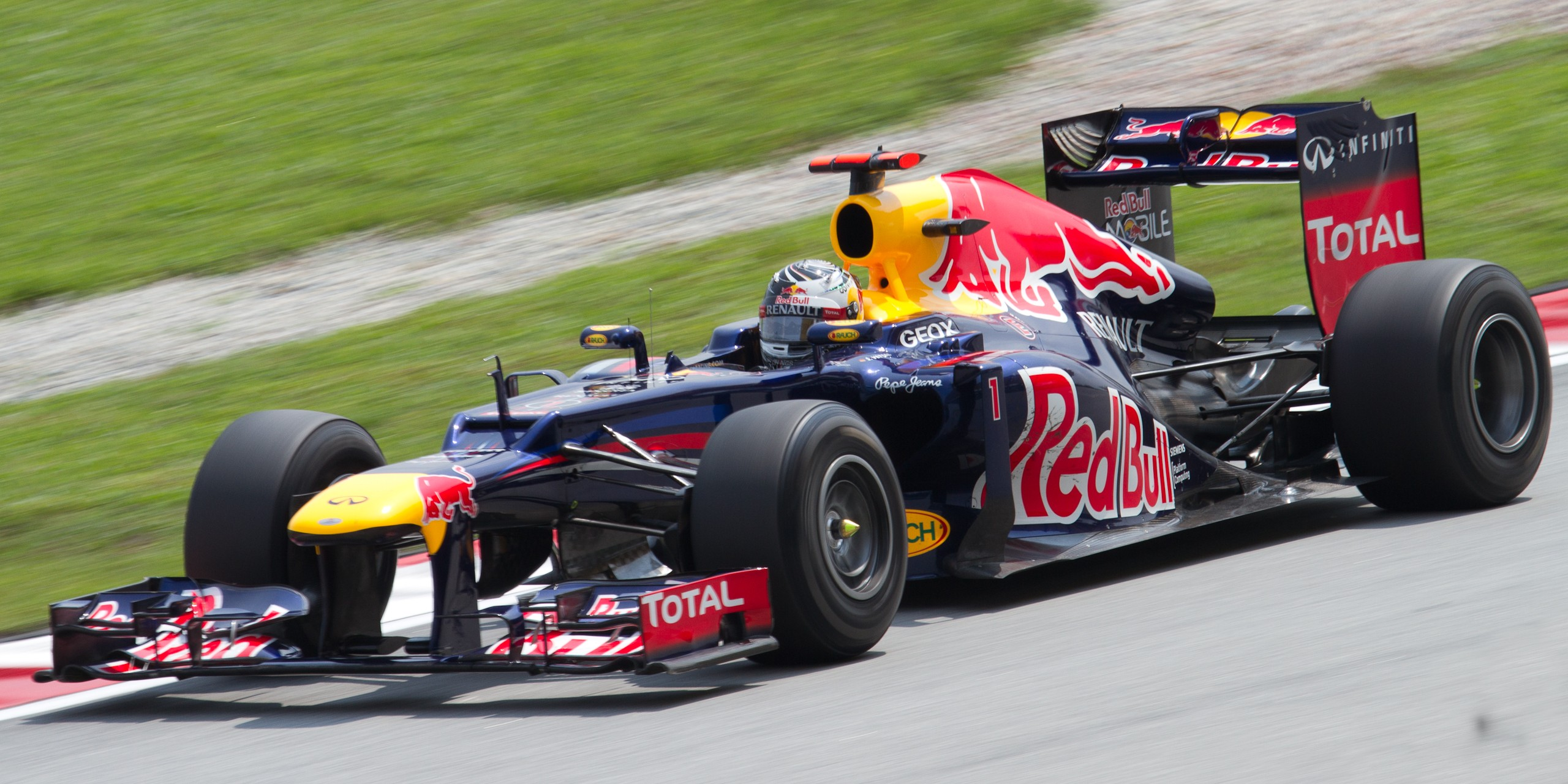 Formula One 2012 Rd.2 Malaysian GP: Sebastian Vettel (Red Bull) during the first practice session on Friday.